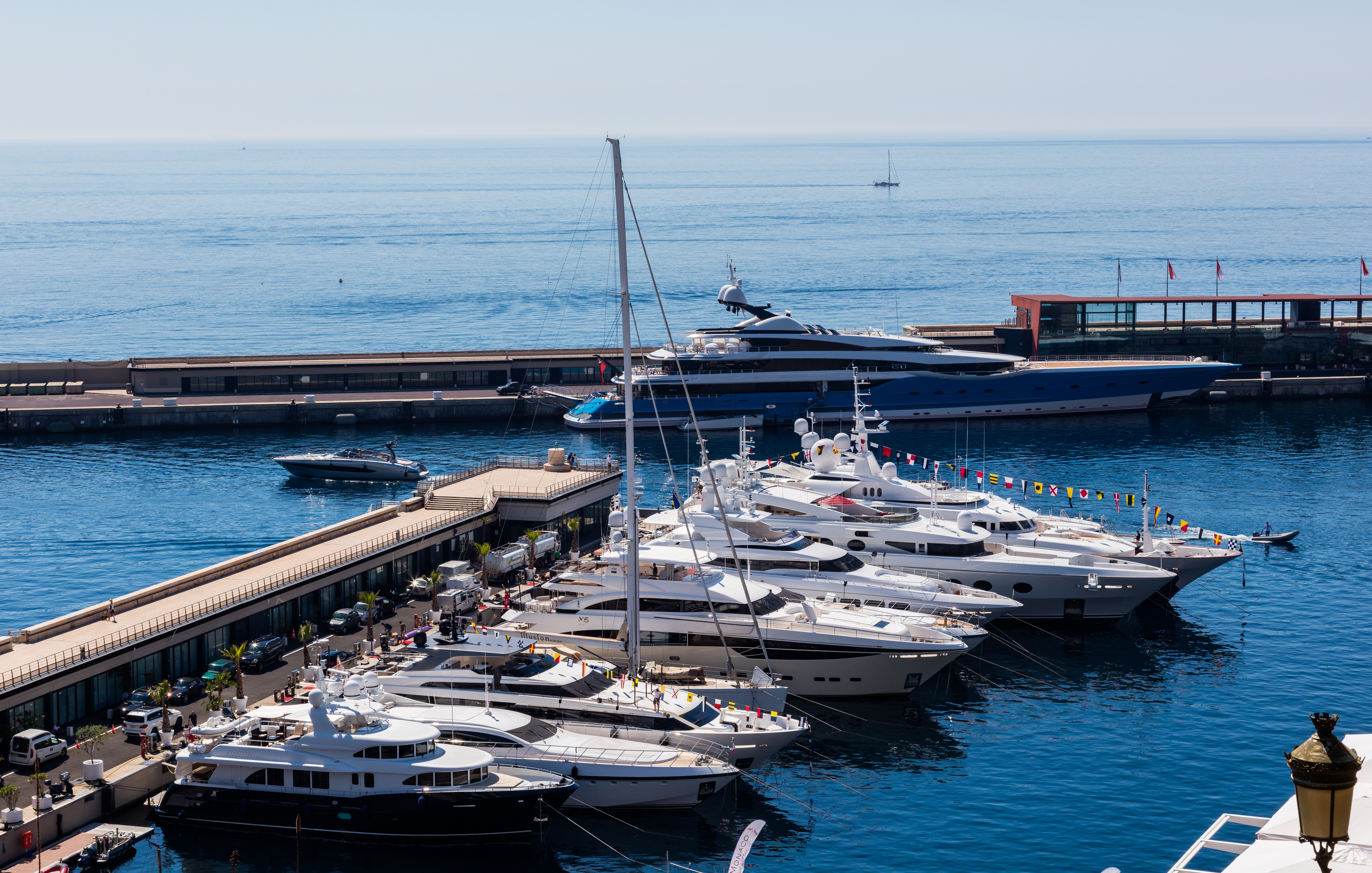 Port of Monaco